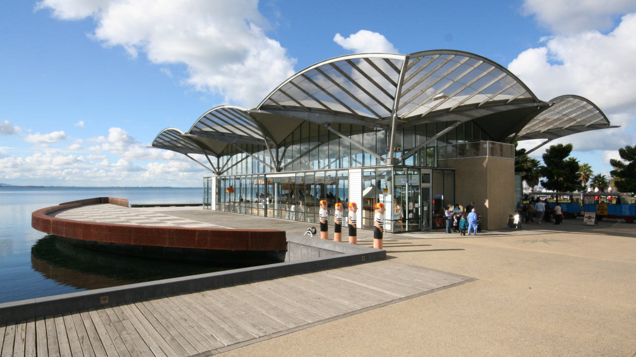 Carousel pavilion on the shores of Corio Bay - Geelong Victoria Australia